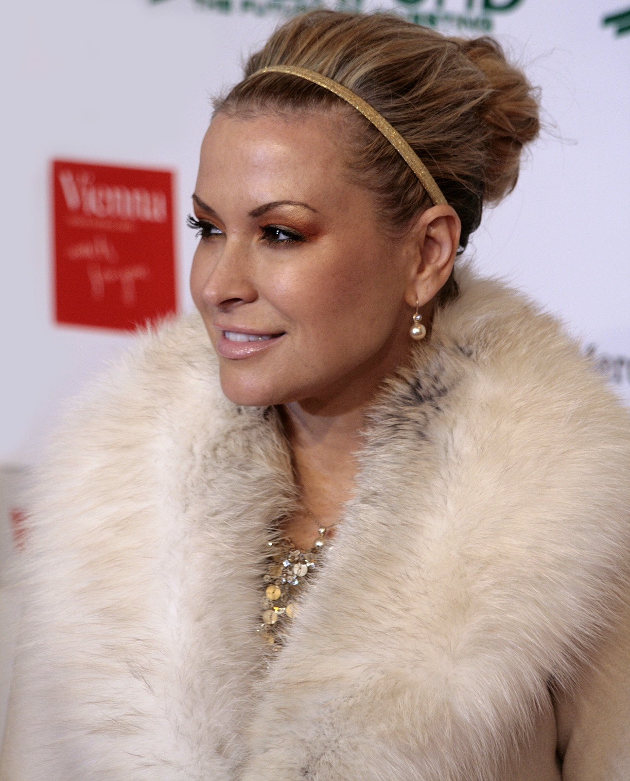 Singer Anastacia at the Women's World Award 2009 (Wiener Stadthalle, Vienna, Austria) where she recieved the 'World Artist Award'.